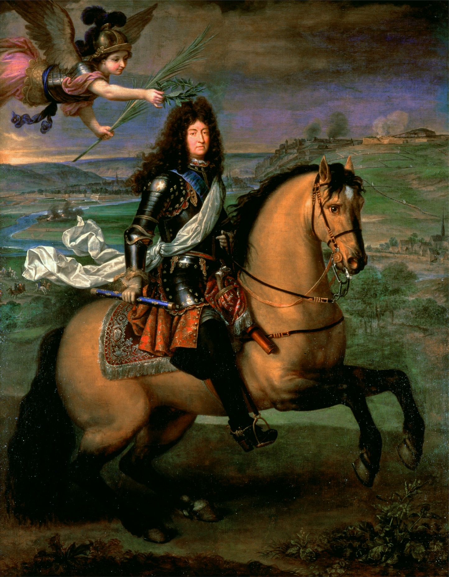 Equestrian portrait of Louis XIV of France (1638-1715)